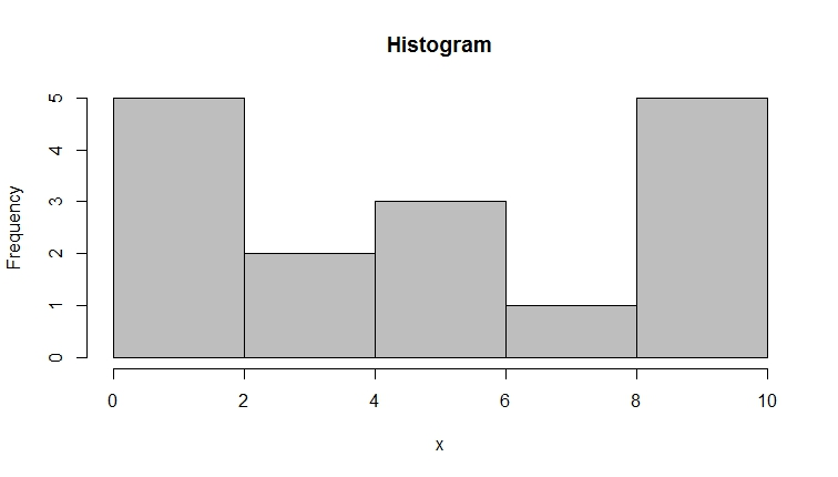 Histogram